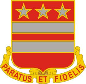 258th Field Artillery Regiment Distinctive Unit Insignia